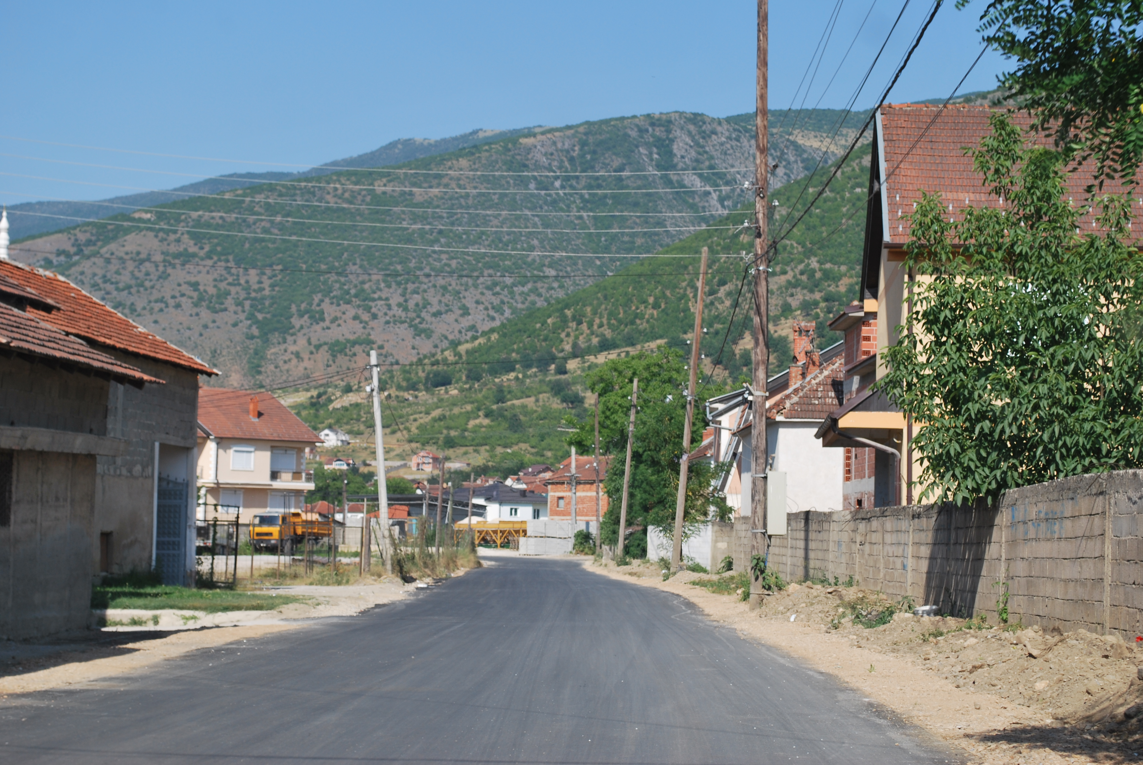 Forino near Gostivar, Macedonia